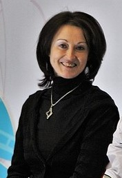 Adelina Sotnikova with their coaches Elena Buianova and Irina Tagaeva at the 2010-2011 Junior Grand Prix of Figure Skating Final.